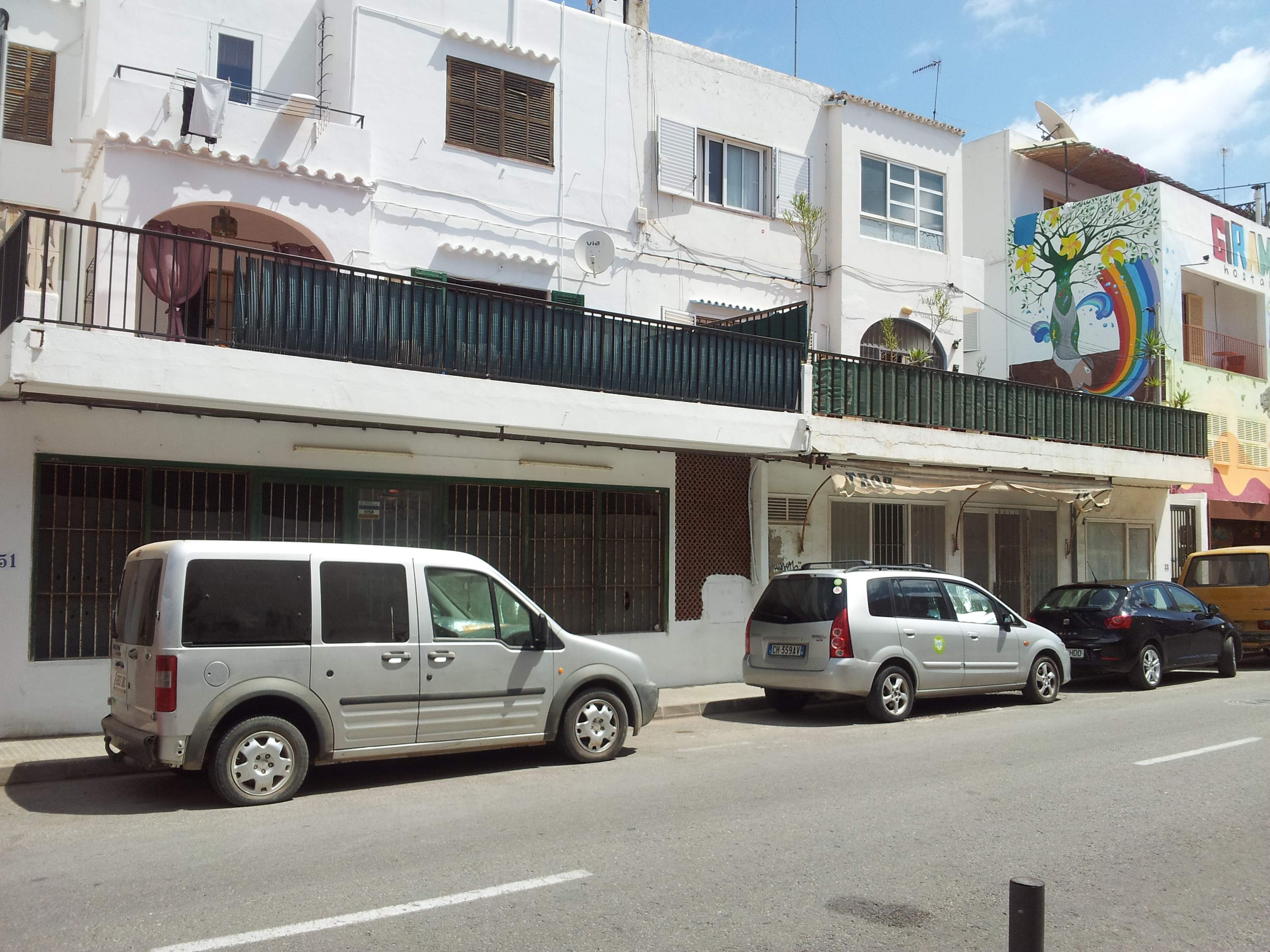 Closed shops in Ibiza, July 16, 2012